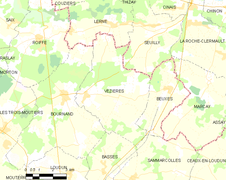 Map of French municipality Vézières